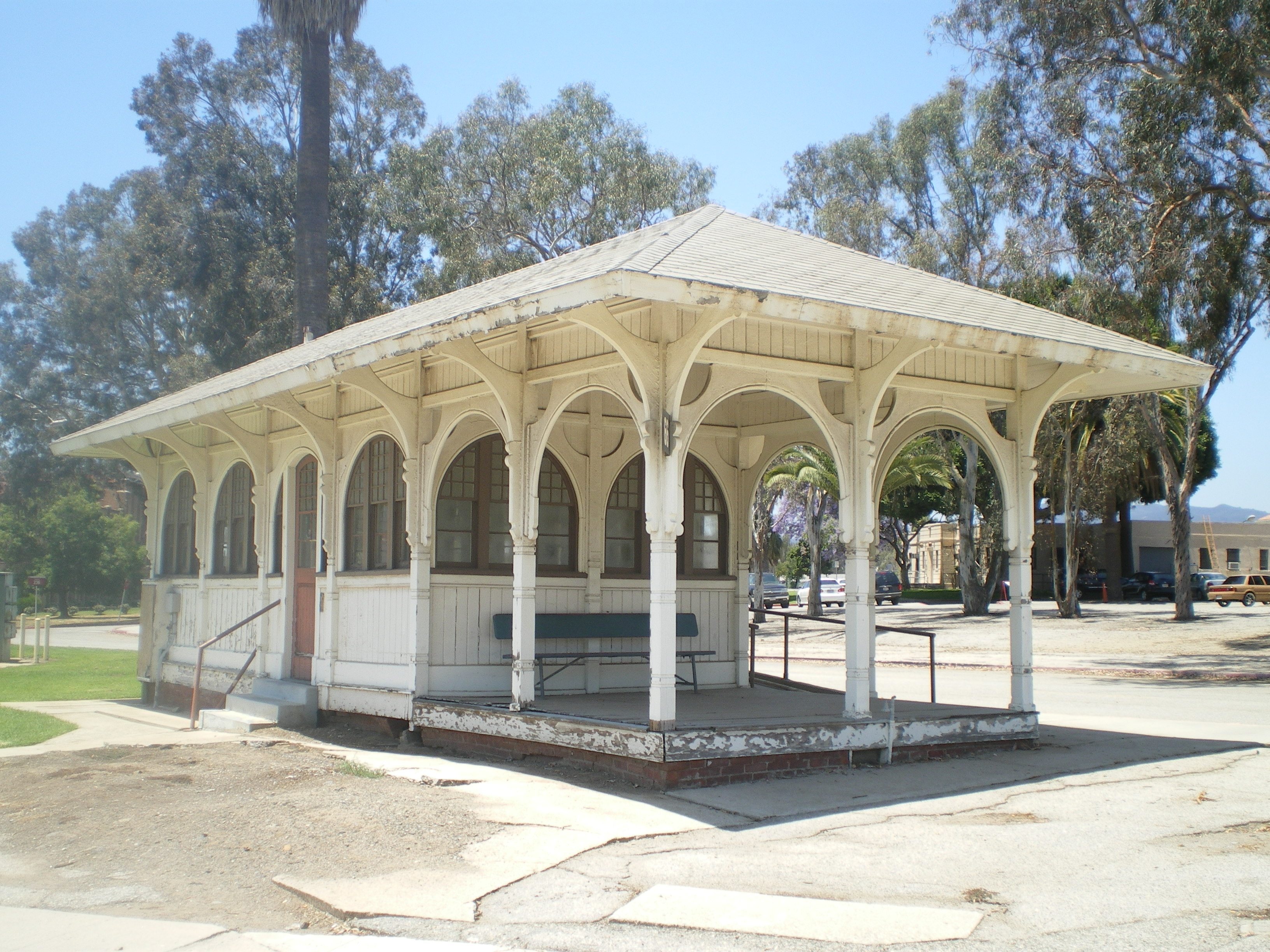 Streetcar Depot, corner of Pershing & Dewey, West Los Angeles VA Center